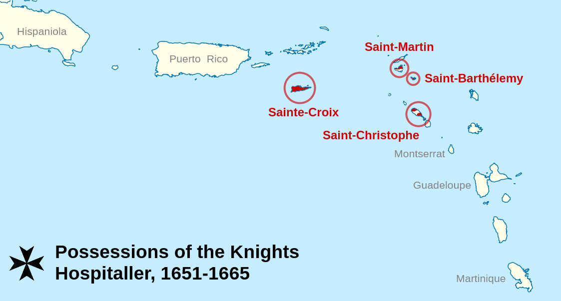 Map of colonies of the Order of St. John, 1651-1665. Carte des colonies de l'Ordre de Saint-Jean, 1651-1665. Mapa de las colonias del Orden de San Juan, 1651-1665. Cropped and colored from File:Lesser Antilles location map.svg